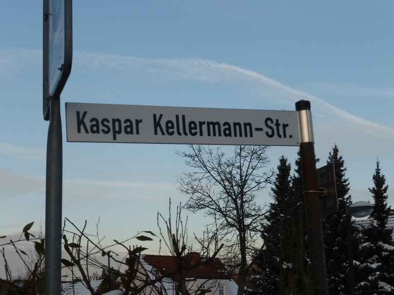 Kaspar–Kellermann-Strasse in Sundern-Allendorf in Germany